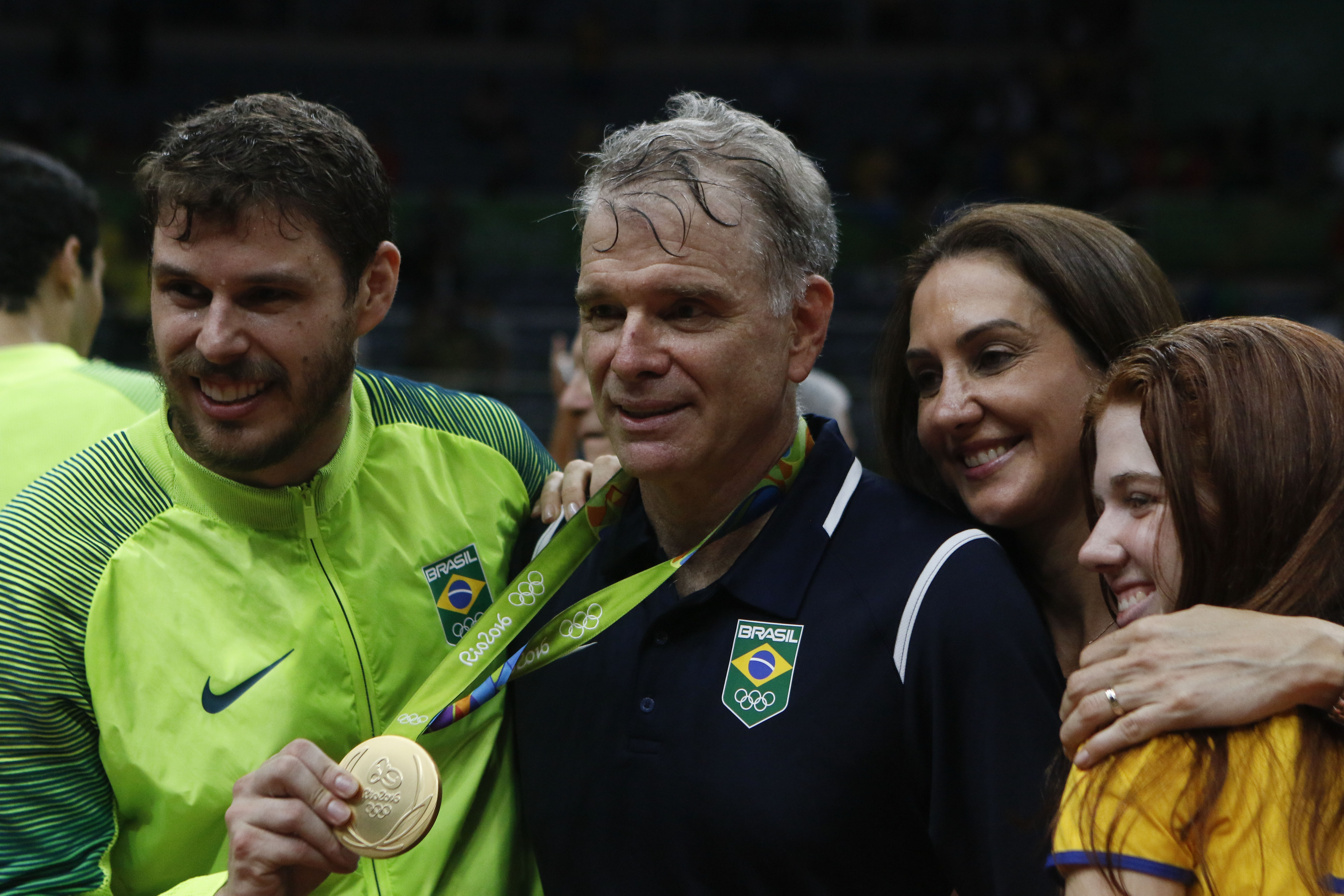 Rio de Janeiro - Seleção brasileira de vôlei ganha medalha de ouro ao vencer a Itália na final dos Jogos Olímpicos Rio 2016 no Maracanãzinho (Fernando Frazão/Agência Brasil)